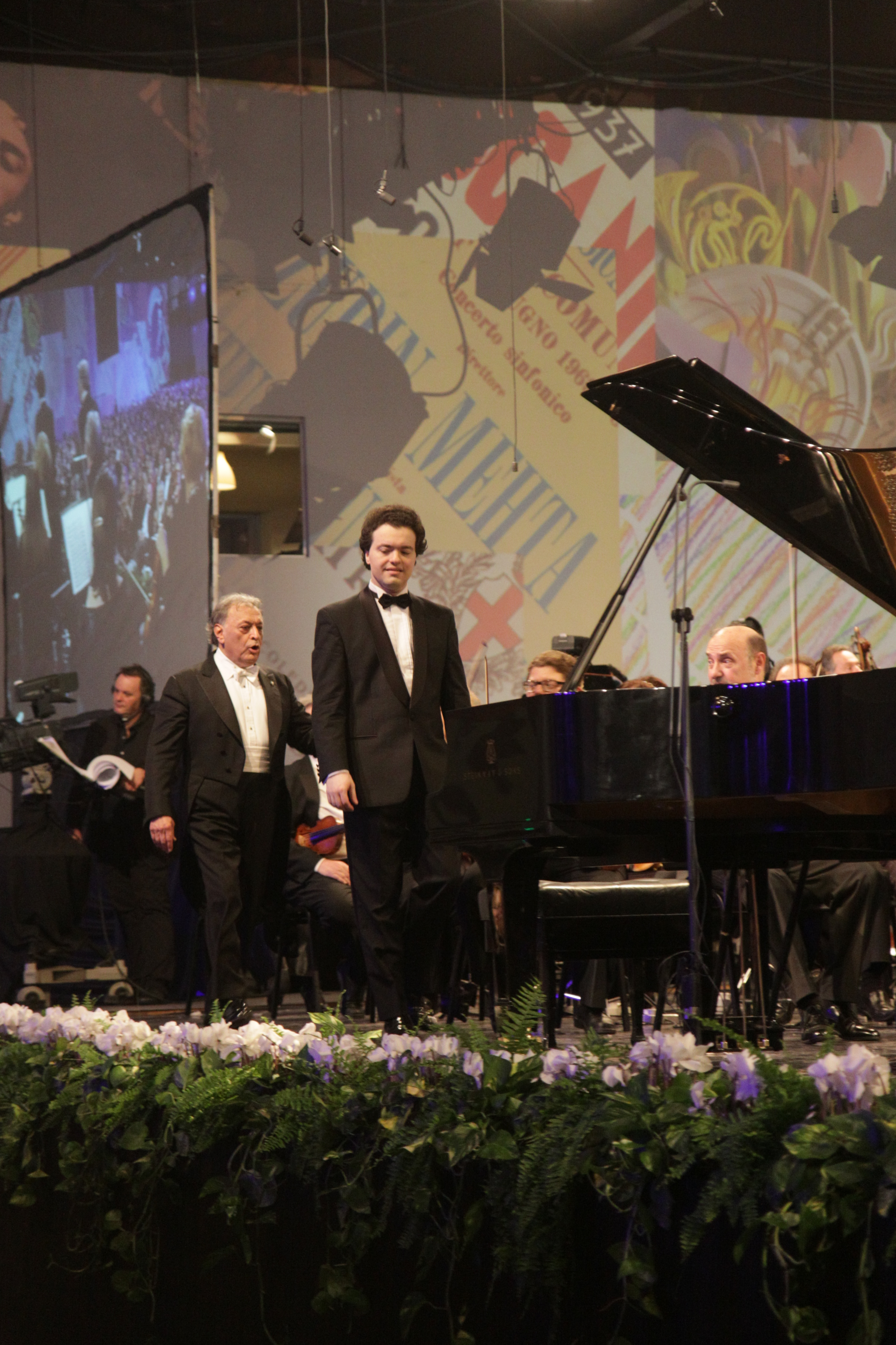 Evgeny Kissin and Zubin Metha. 75th anniversary of Israel Philharmonic Orchestra. Tel Aviv, 24-12-2011